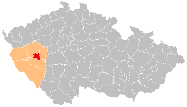 Plzeň-City District within Plzeň Region. Current borders of districts since January 1, 2007.